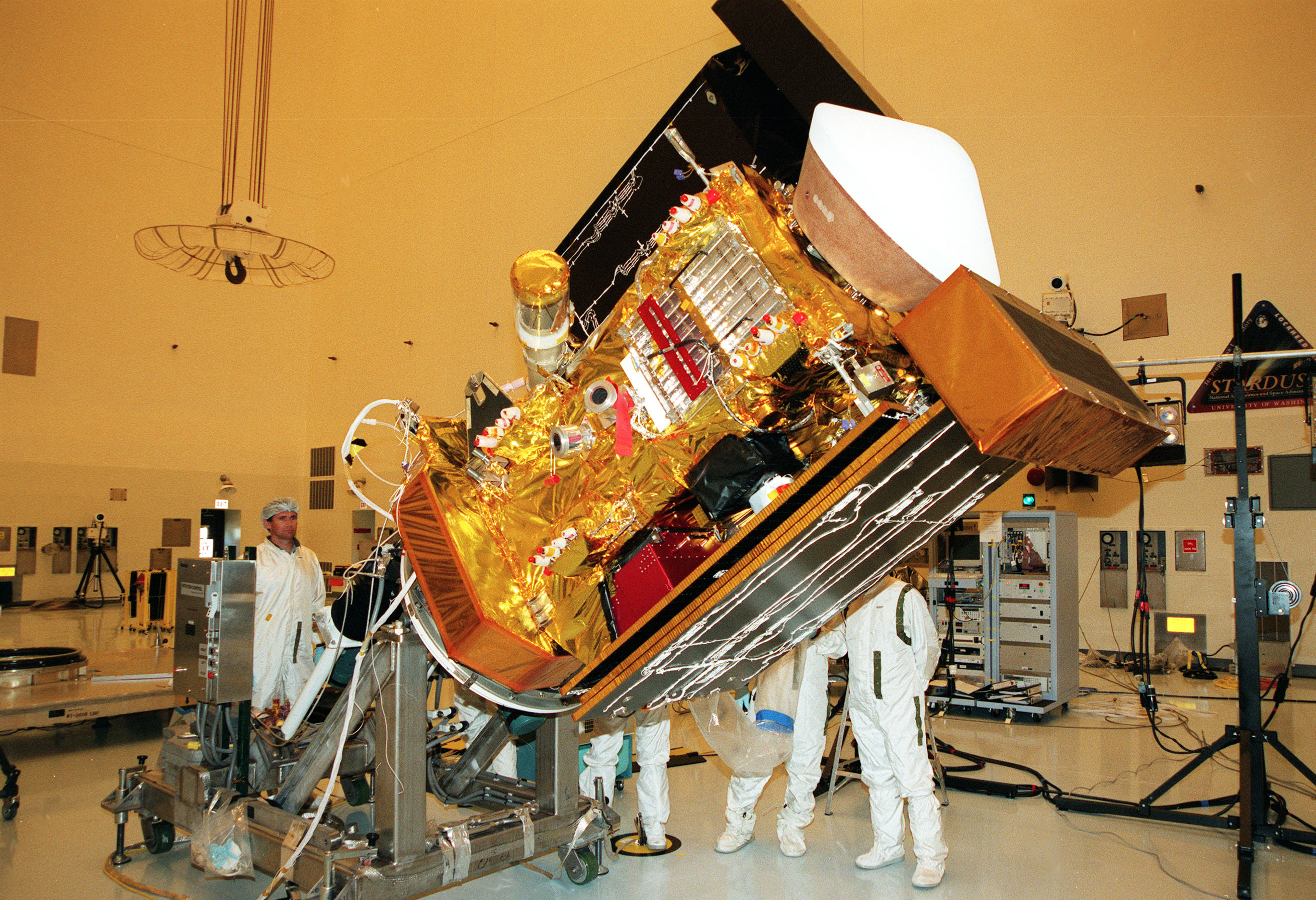 Workers in the Payload Hazardous Servicing Facility watch as the Stardust spacecraft is lowered before deploying panels for lighting tests.